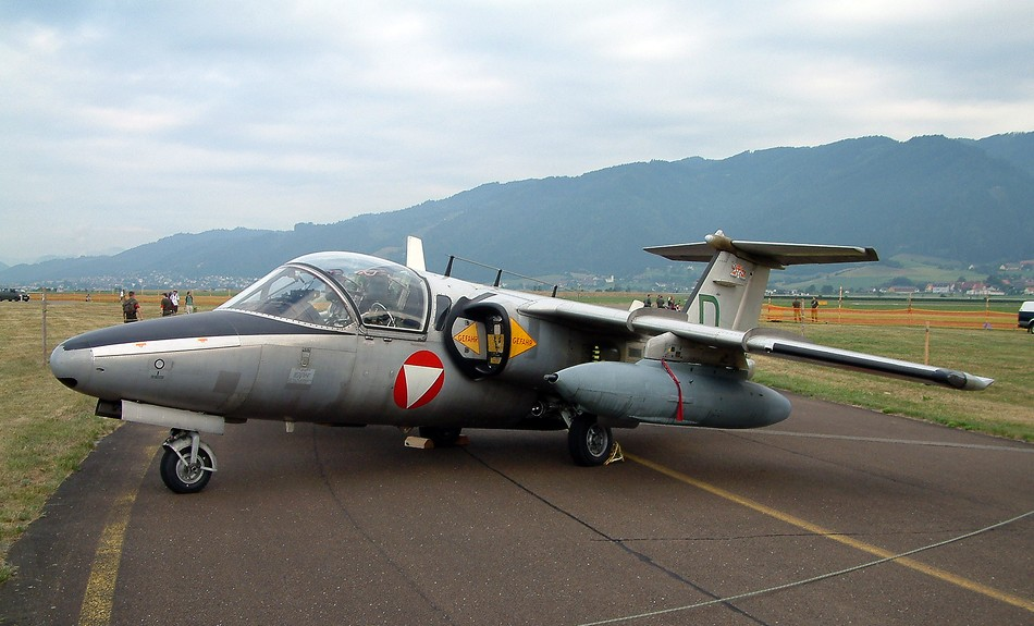 An Austria Air Force Saab 105 at Airpower 2005 Air Show in Zeltweg, Austria.